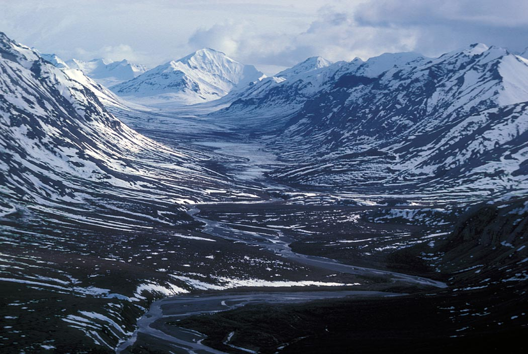 Noatak River and Glacial Valley - Aerial View